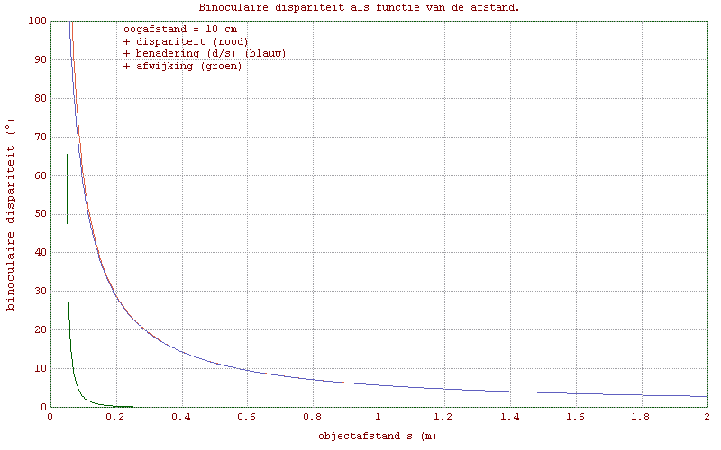 Graph about binocular disparity, dutch